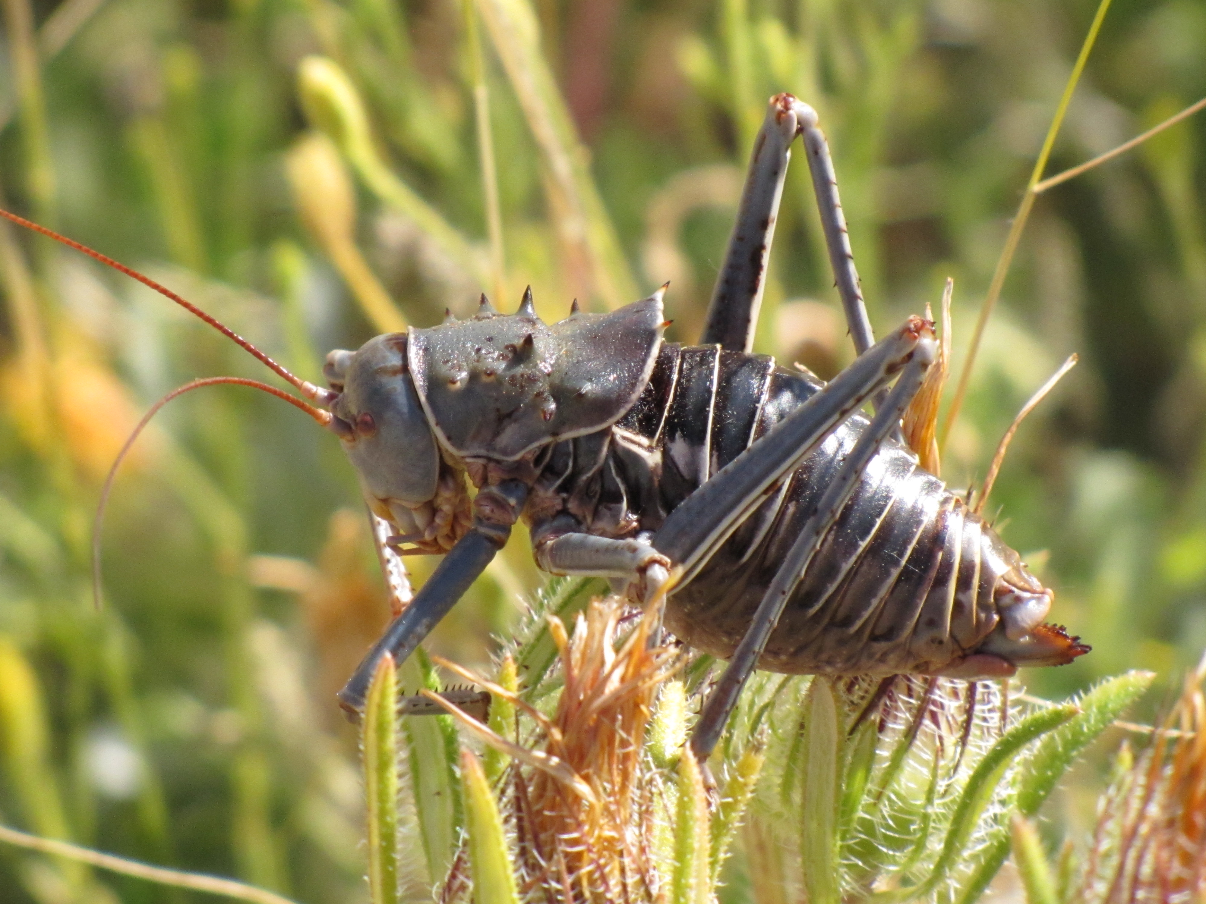 Green armored cricket in Namibia.